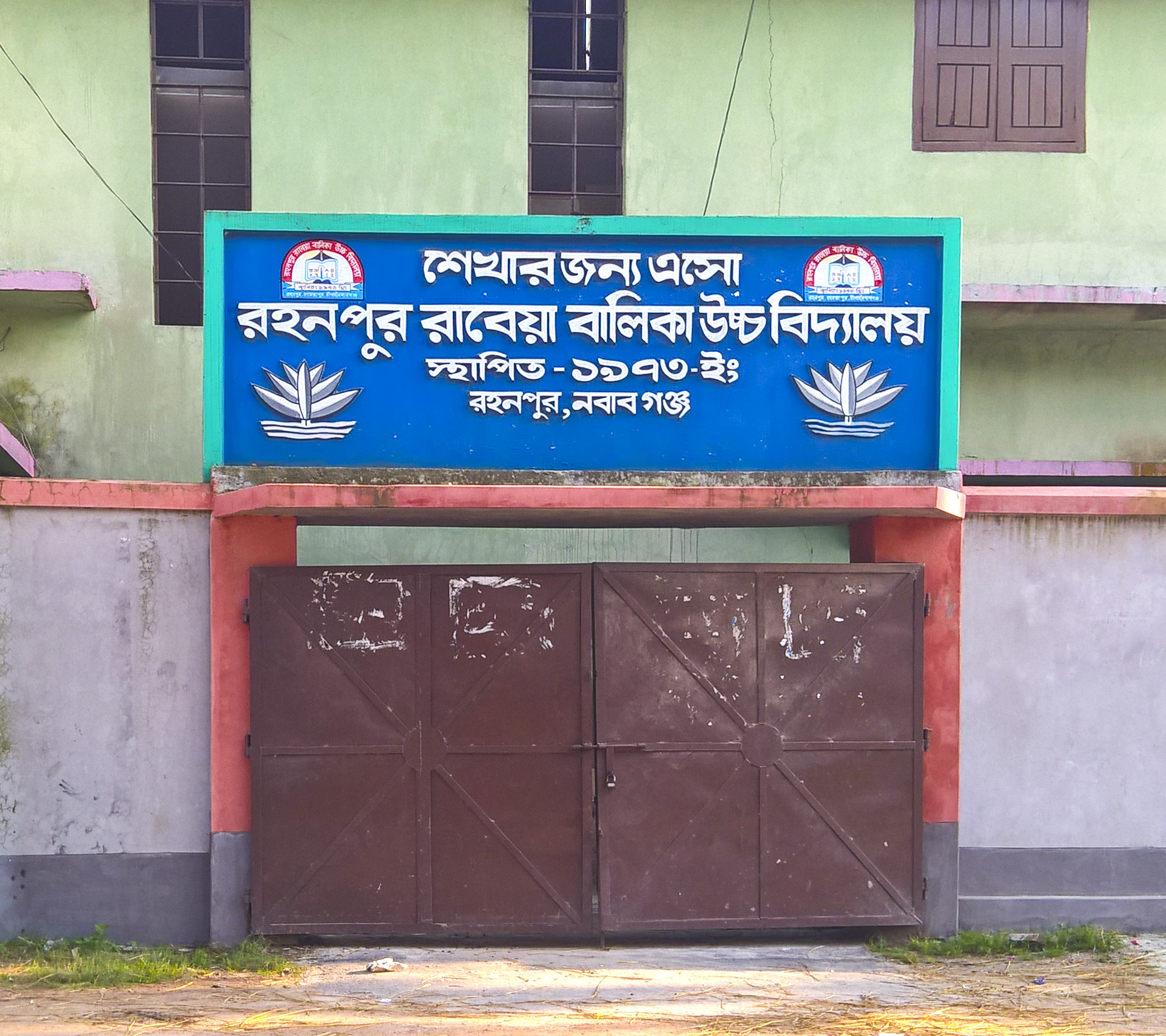 Rohanpur Rabeya Girls High School is a renowned girls school in Gomastapur Upazilla of Chapainawabgonj, Bangladesh.